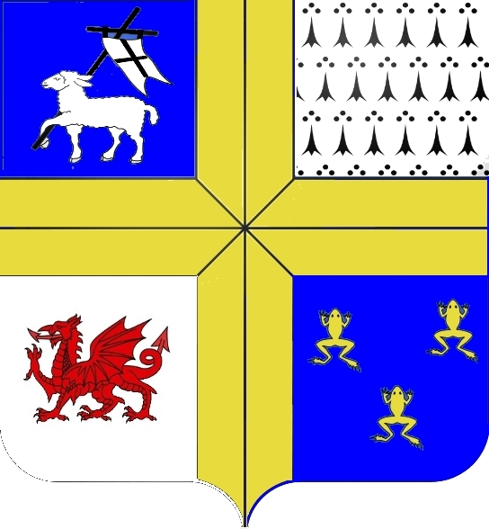 Blason